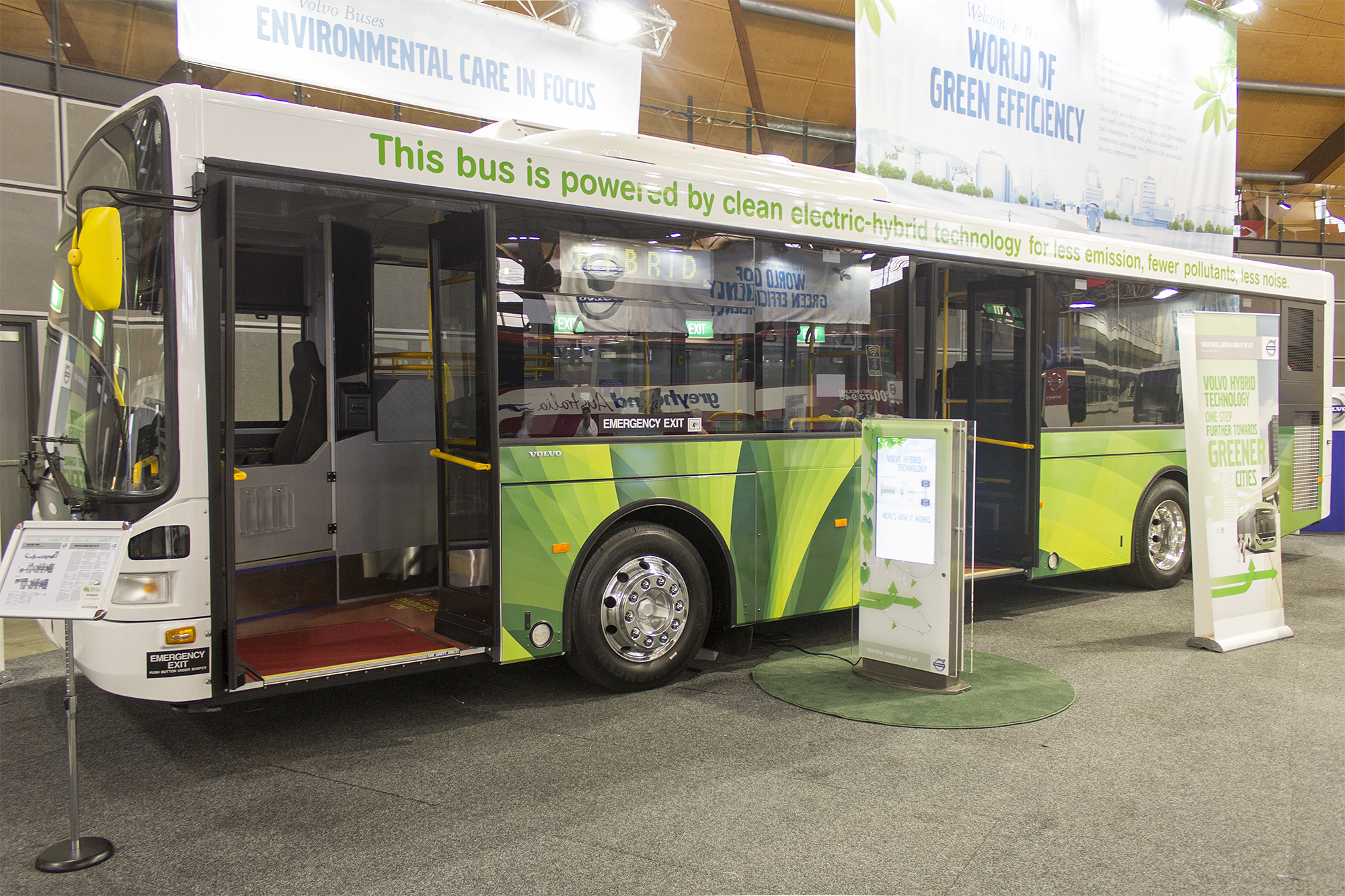 Volgren 'CR228L' bodied Volvo B5RHLE (Hybrid) on display at the 2013 Australian Bus & Coach Show.